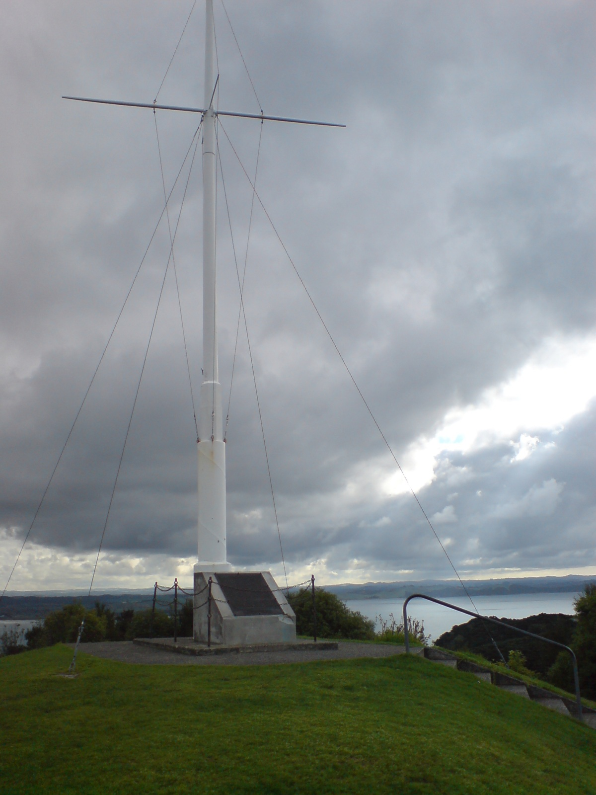 The flagstaff on Flagstaff Hill, Bay of Islands, New Zealand. The cutting down ot this flagstaff was part of the reason for the Flagstaff War in 1845. Picture taken looking approximately west on a cloudy day.